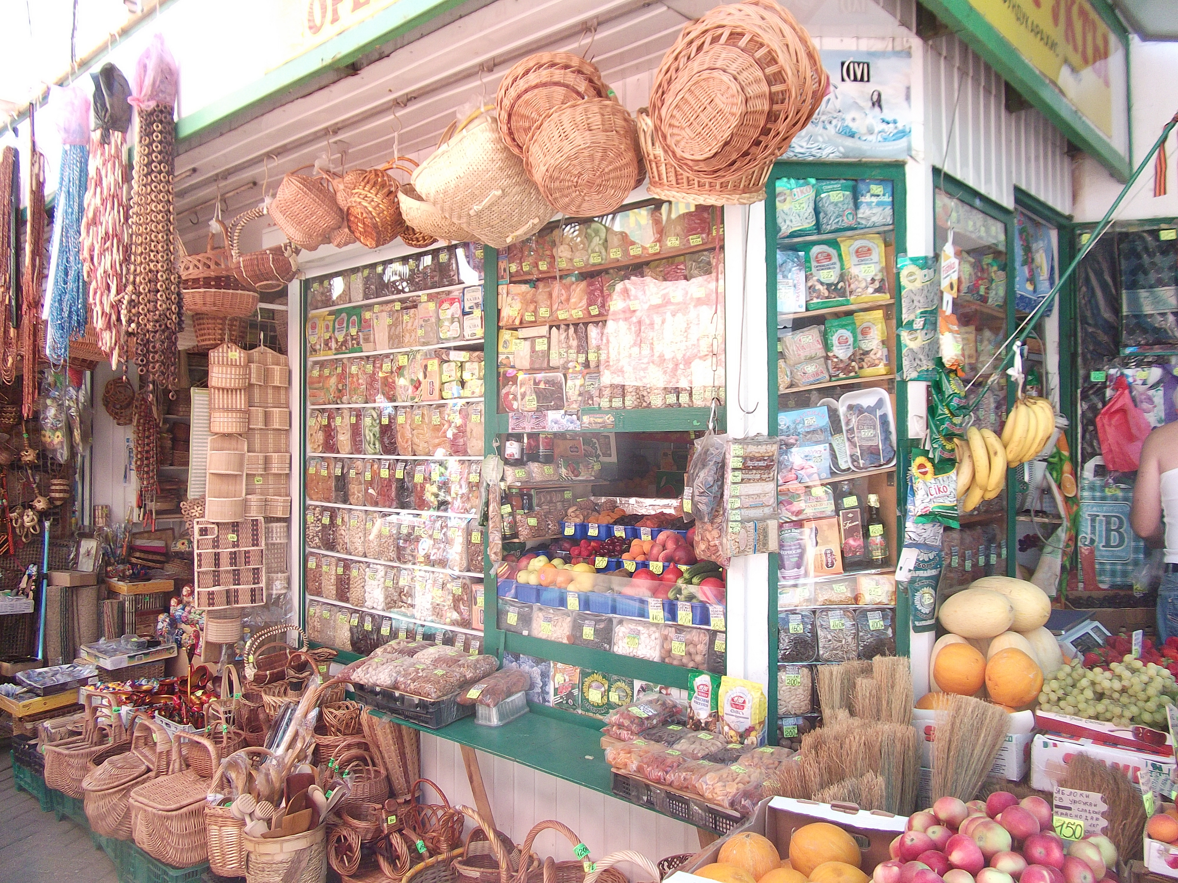 Deputatskay street (Yaroslavl)